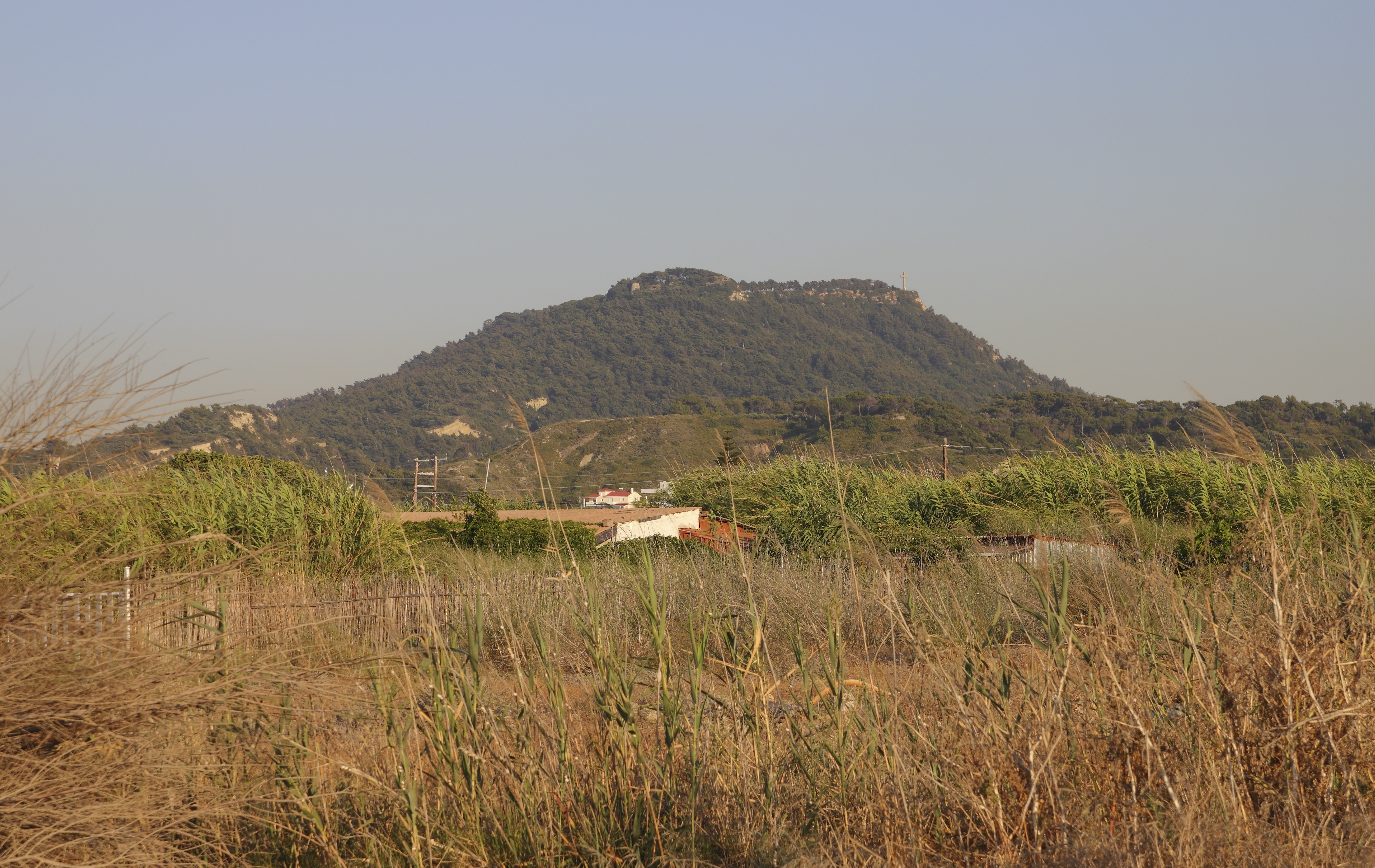 View from the beach of Kremasti to the Filerimos Hill. Rhodes, Greece